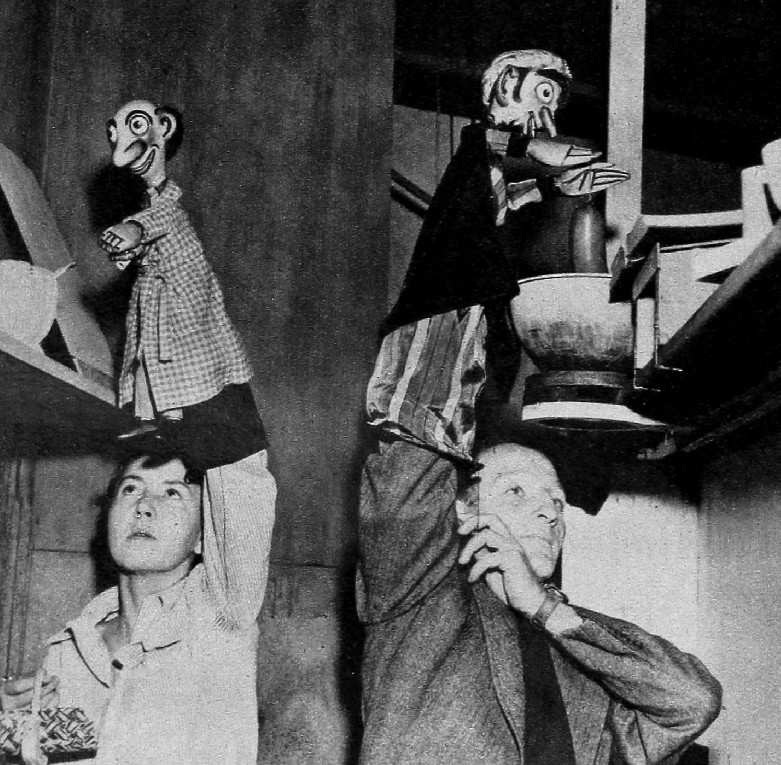 Photo of Pinhead (left) and Foodini as performed by their creators, Hope and Morey Bunin, from the children's television show Foodini the Great. The program was first known as Lucky Pup.